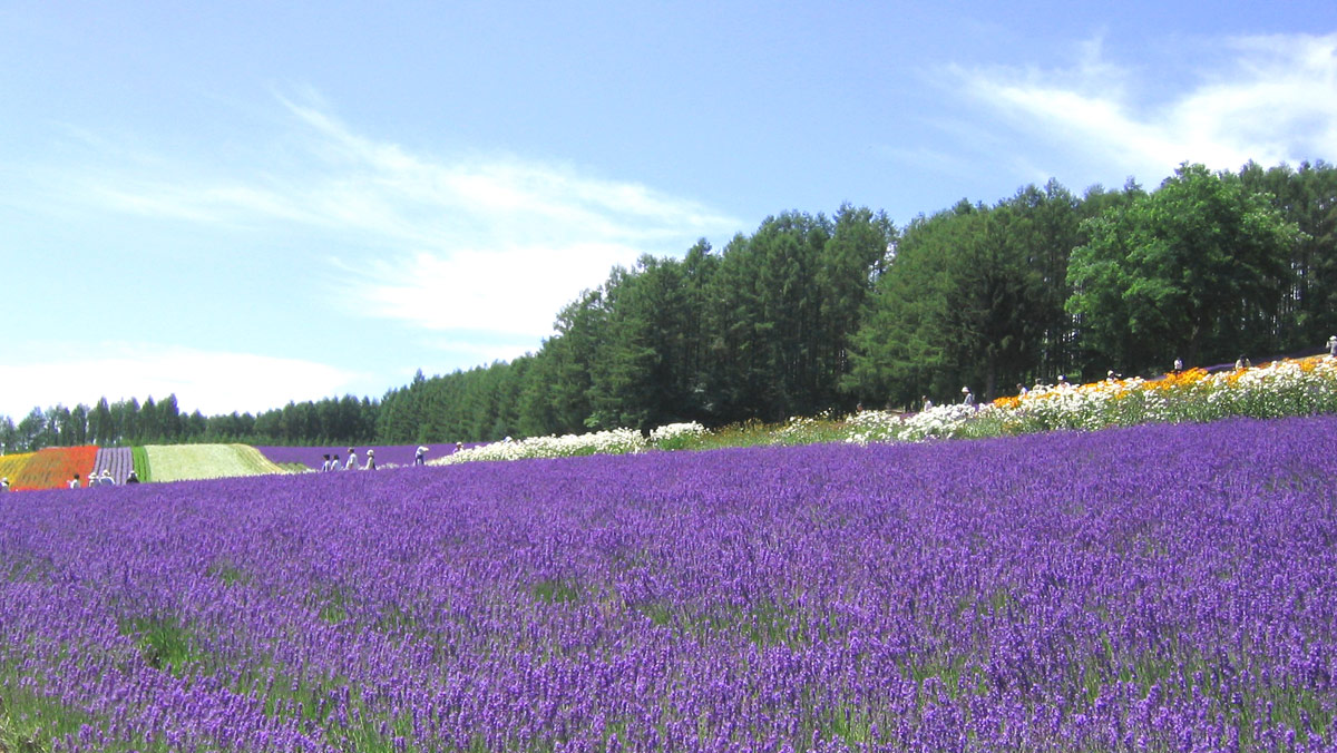 Photo taken on 2004-07-22 by Glio's wife. Lavender farm (Farm Tomita 富田農場) at Kami-Furano (上富良野) in Hokkaido (北海道) visitors visiting the farm